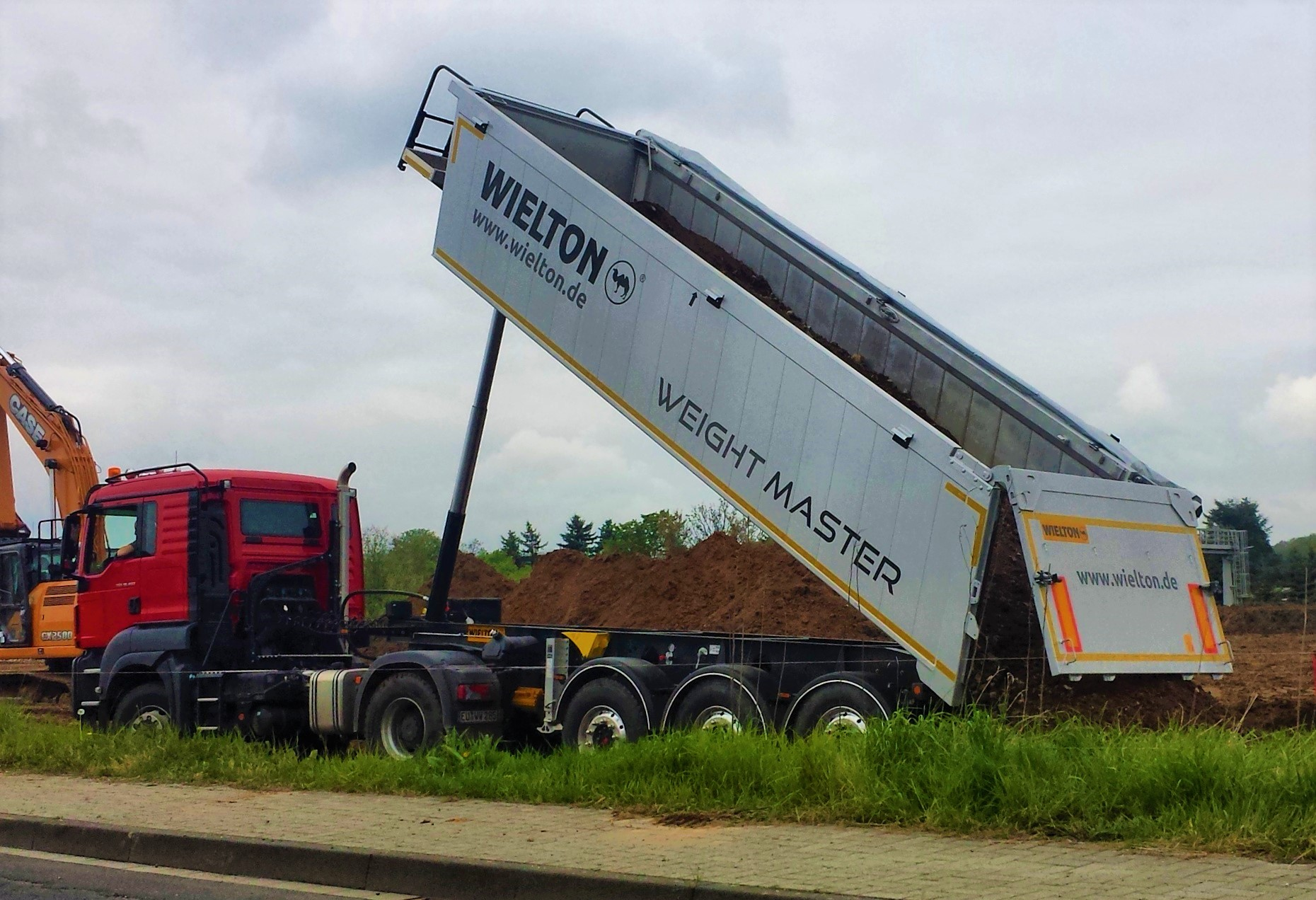 A tipper semi-trailer for bulk cargo in action.